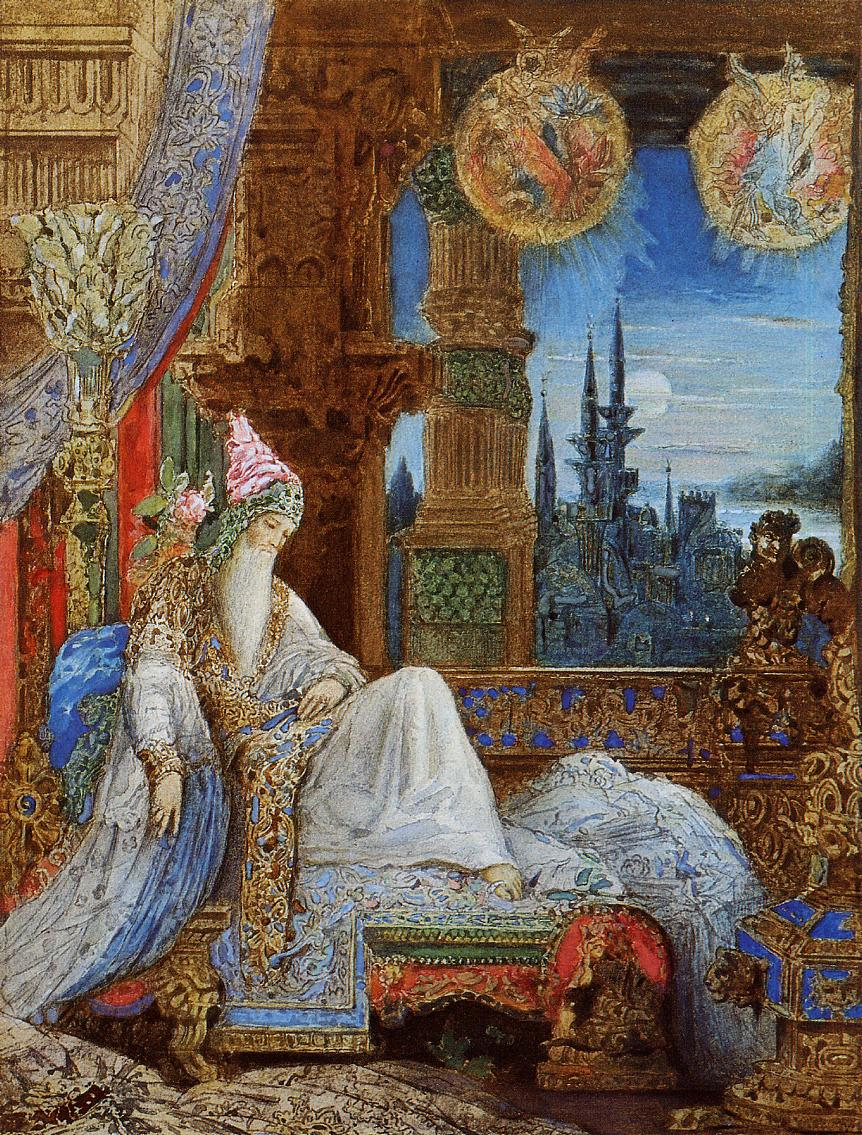 Collection particulière